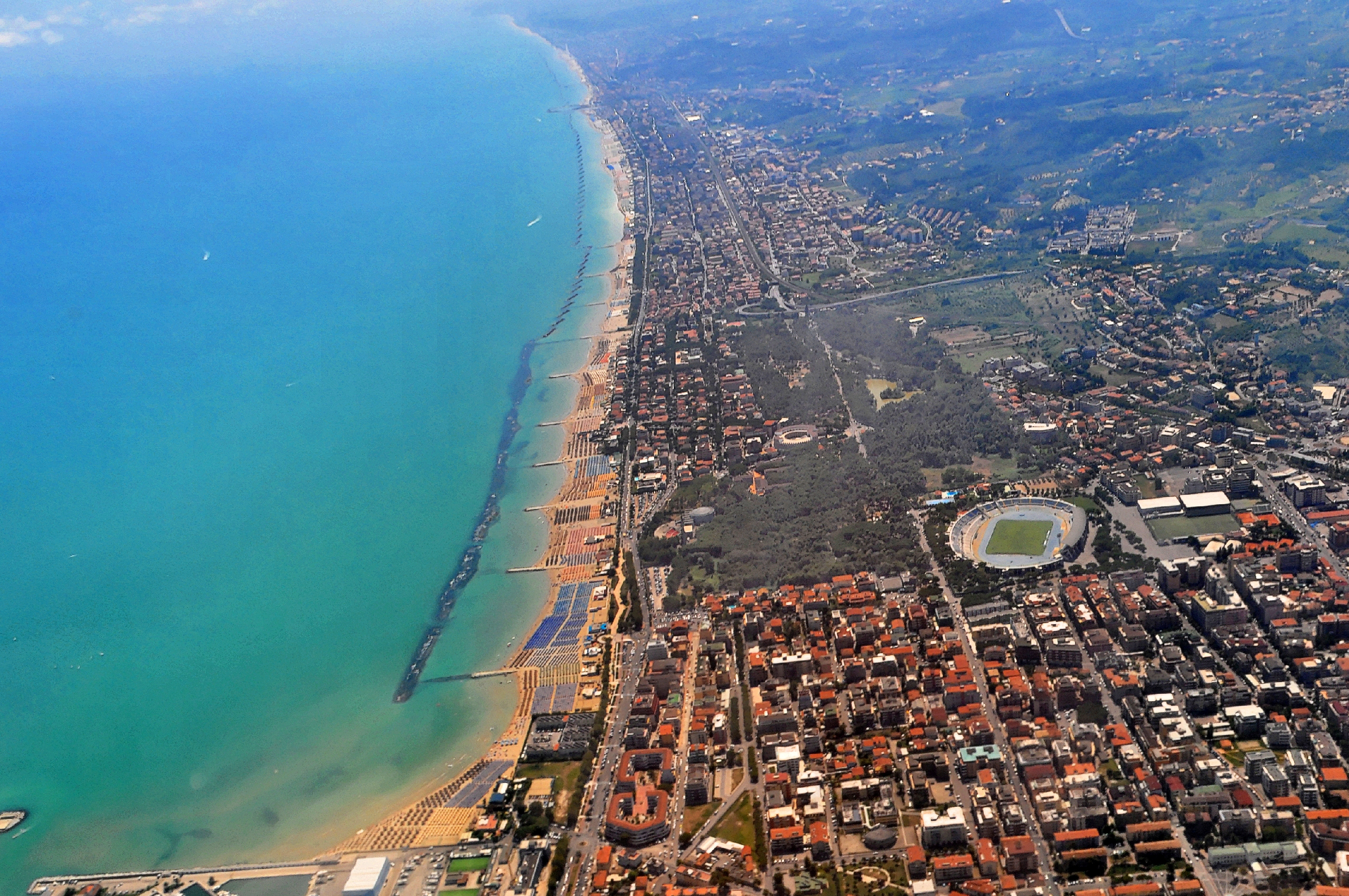 Fly Pescara London Wikimania 2014